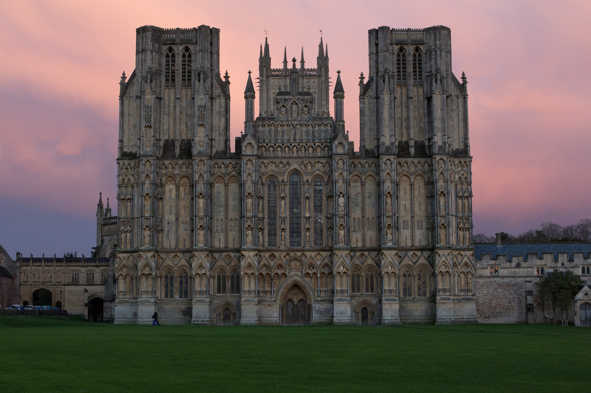 The sunset sky at Wells Cathedral, Wells, UK